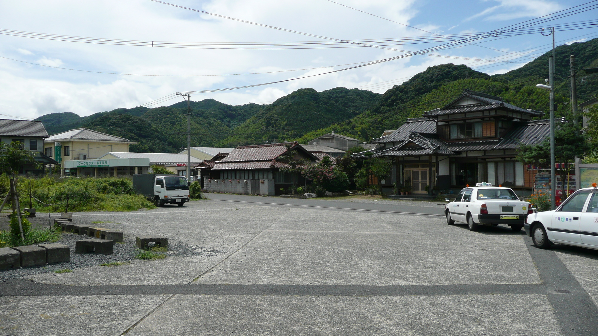 Ishiharamachi Station plaza,Hita-Hikosan Line.